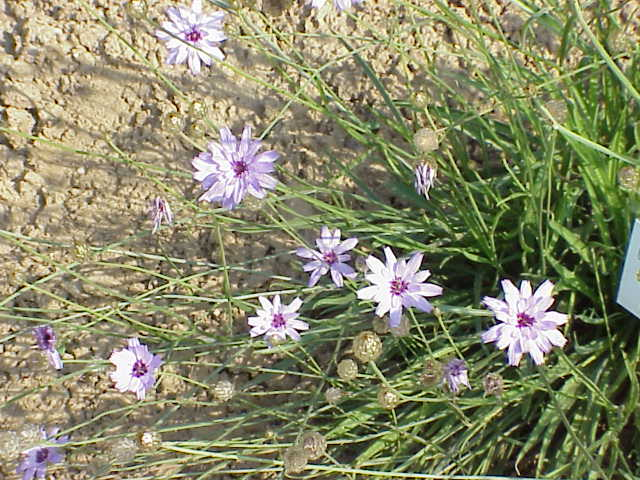 Species: Catananche caerulea Family: Compositae Image No. 5